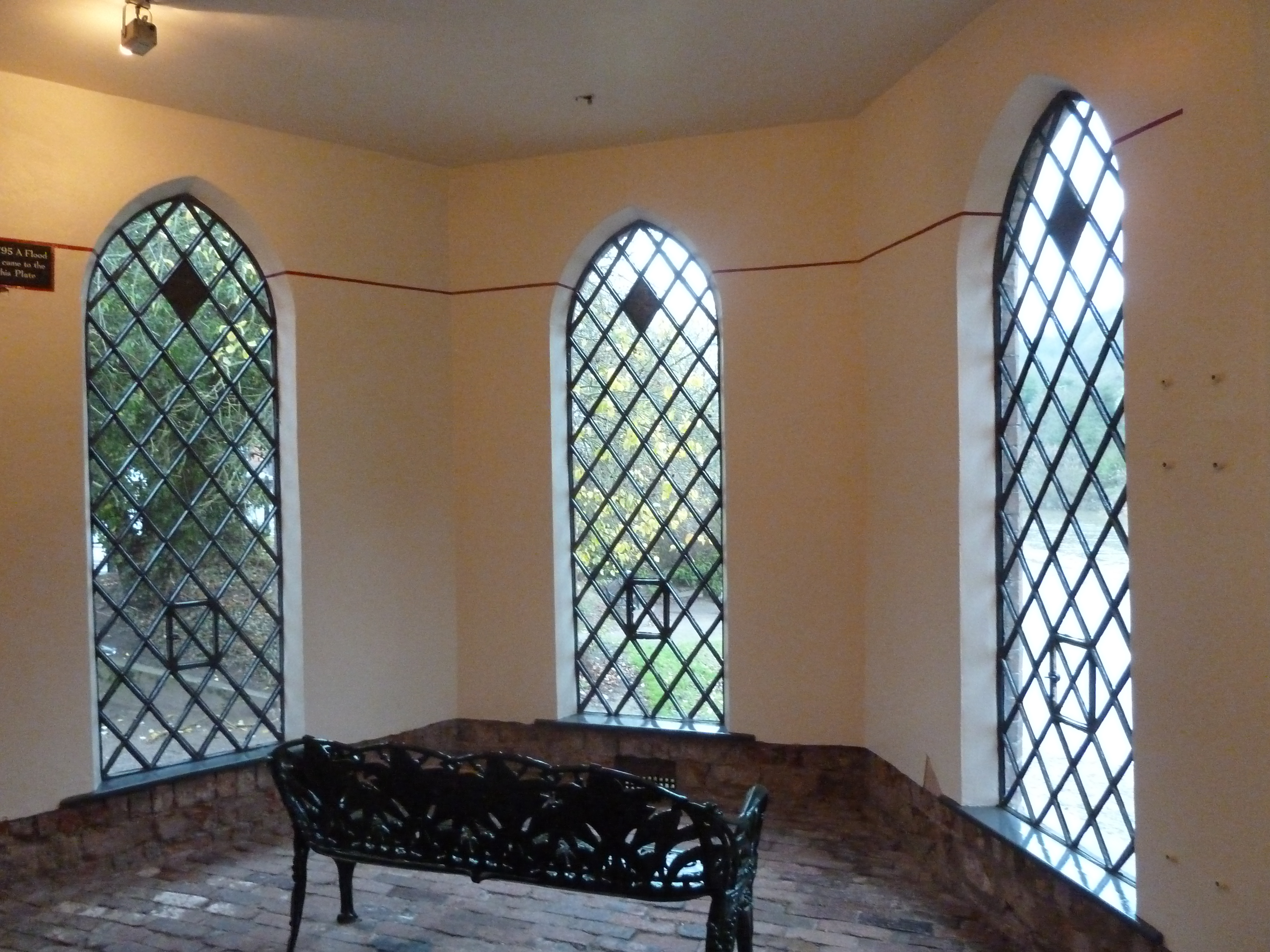 Inside the Museum of the Gorge, Ironbridge. The red line at the top of the windows indicates the height of the highest flood. The warehouse was built for storage of goods over the Summer, before shipping down the Severn, when the river was too low for shipping. As the floods occurred in Winter-Spring, the warehouse would have been largely empty at the time.